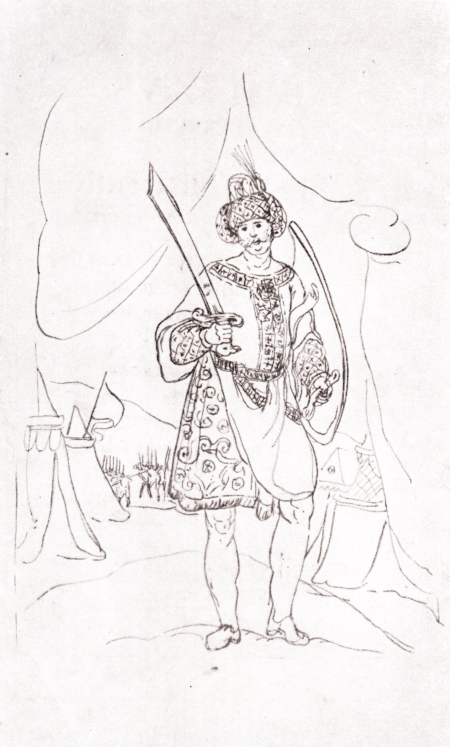 king Rostom - the second husband Mariam Dadiani. A sketch by the Catholic missionaire Don Cristoforo De Castelli.